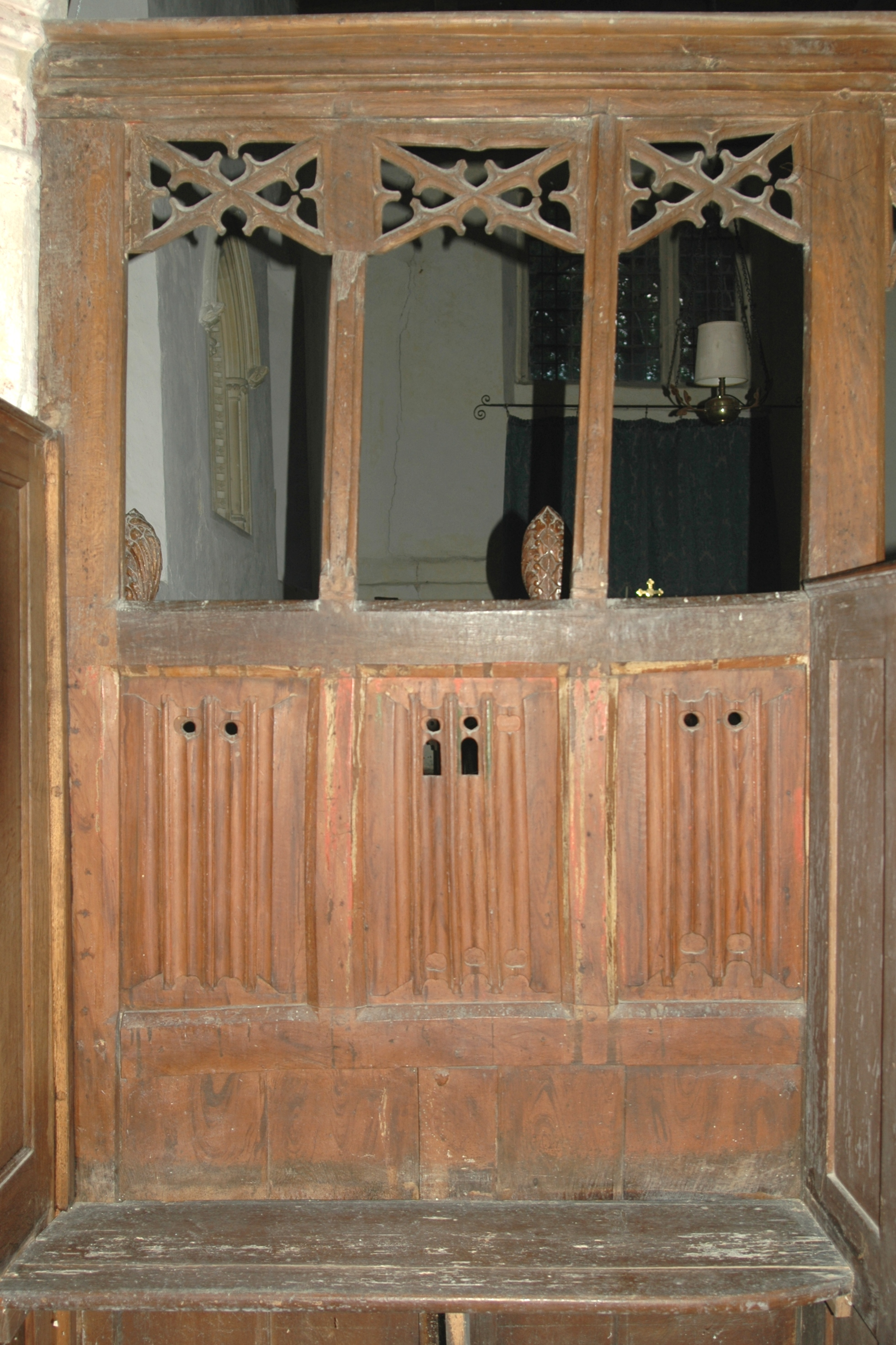 Church of England parish church of the Holy Rood, Woodeaton, Oxfordshire: section of late 15th or early 16th century chancel screen.